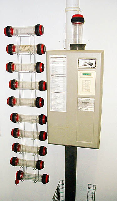 Pneumatic tube terminal.